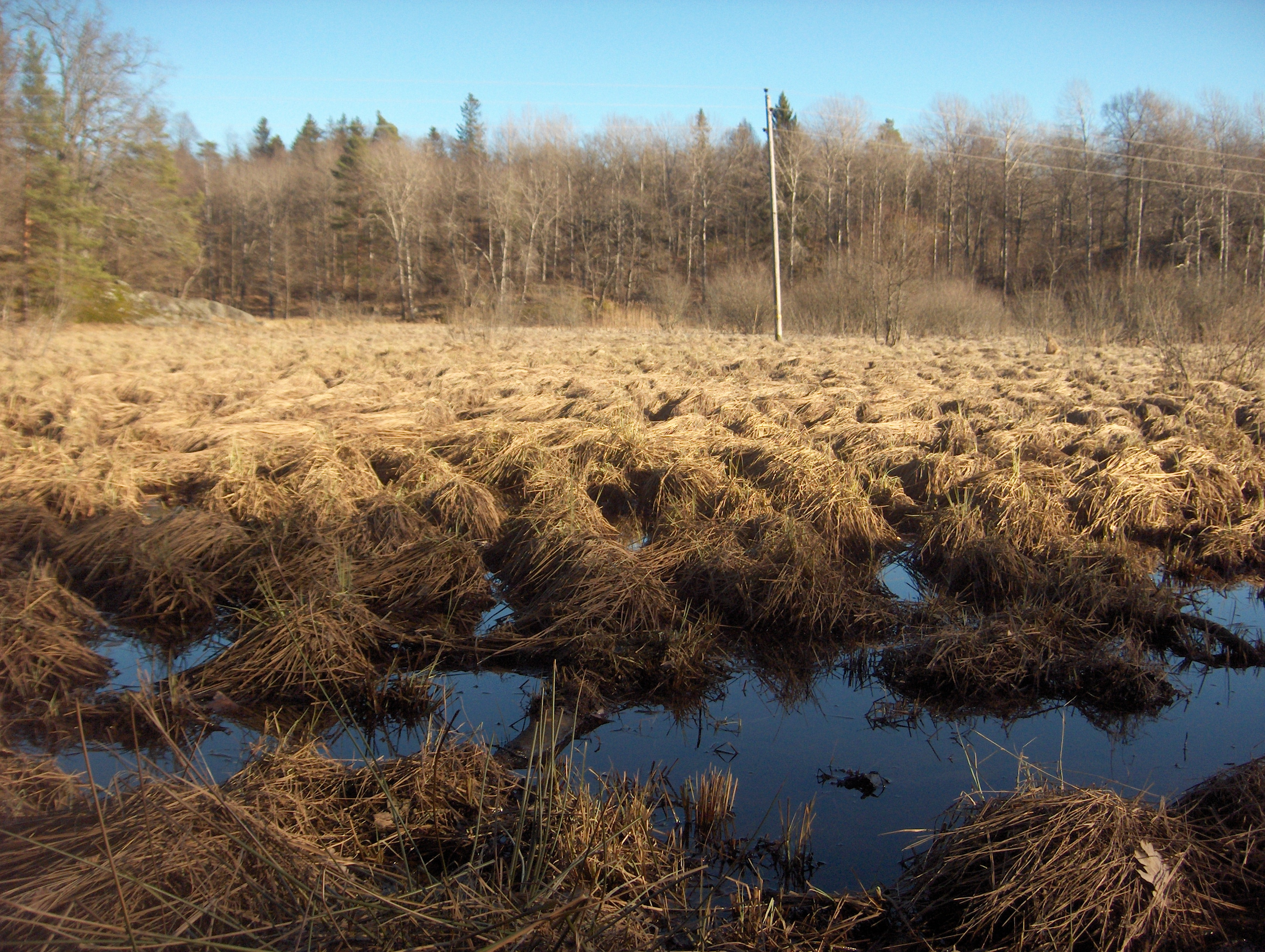 Wetland, or maybe pog, similar to mayer (the Swedish word "sankäng" is hard to translate), at Ågestasjön ("the Ågesta lake") in Stockholm. Photographed by me in spring 2008.